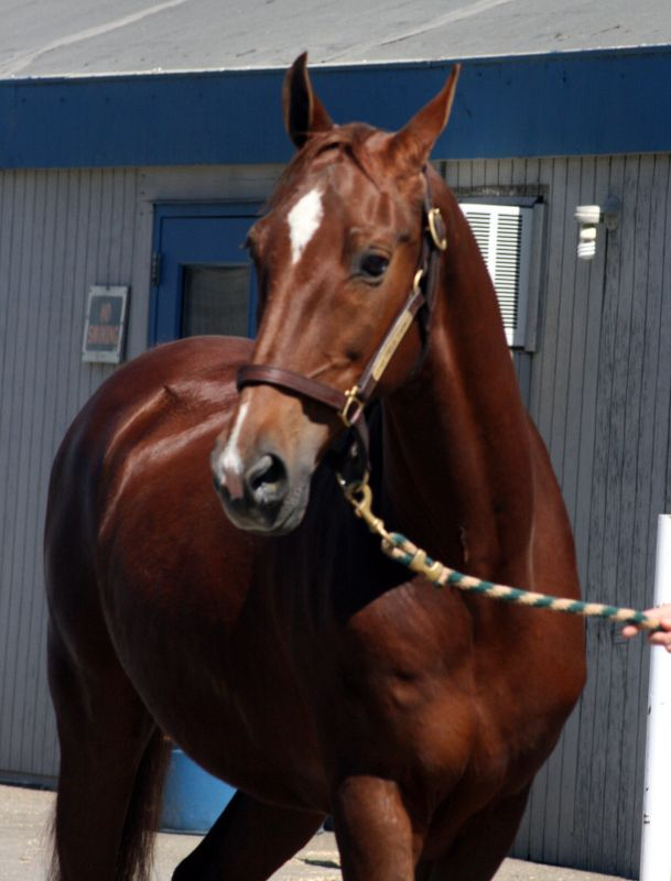 American Saddlebred